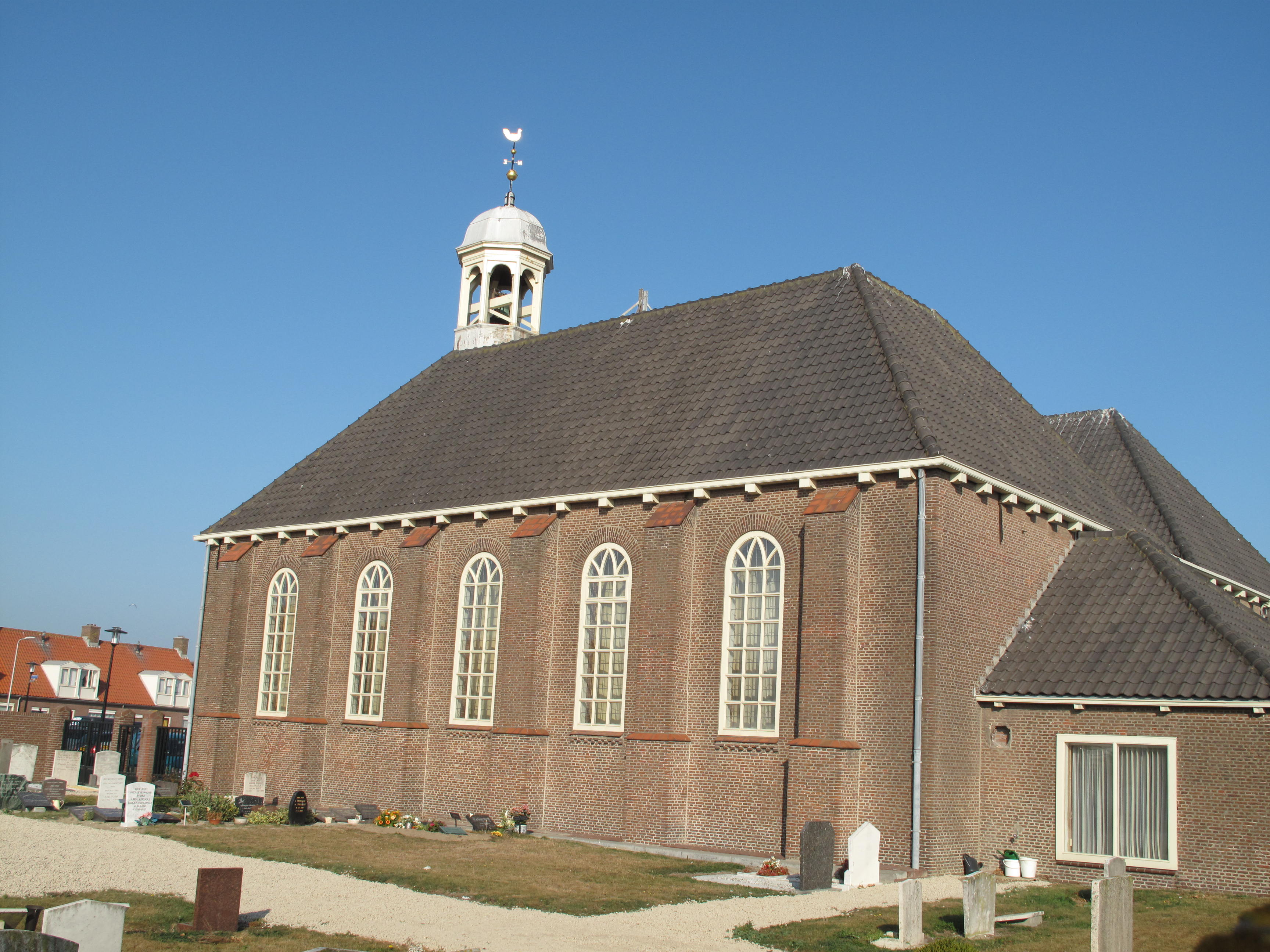 Ter Heijden, church